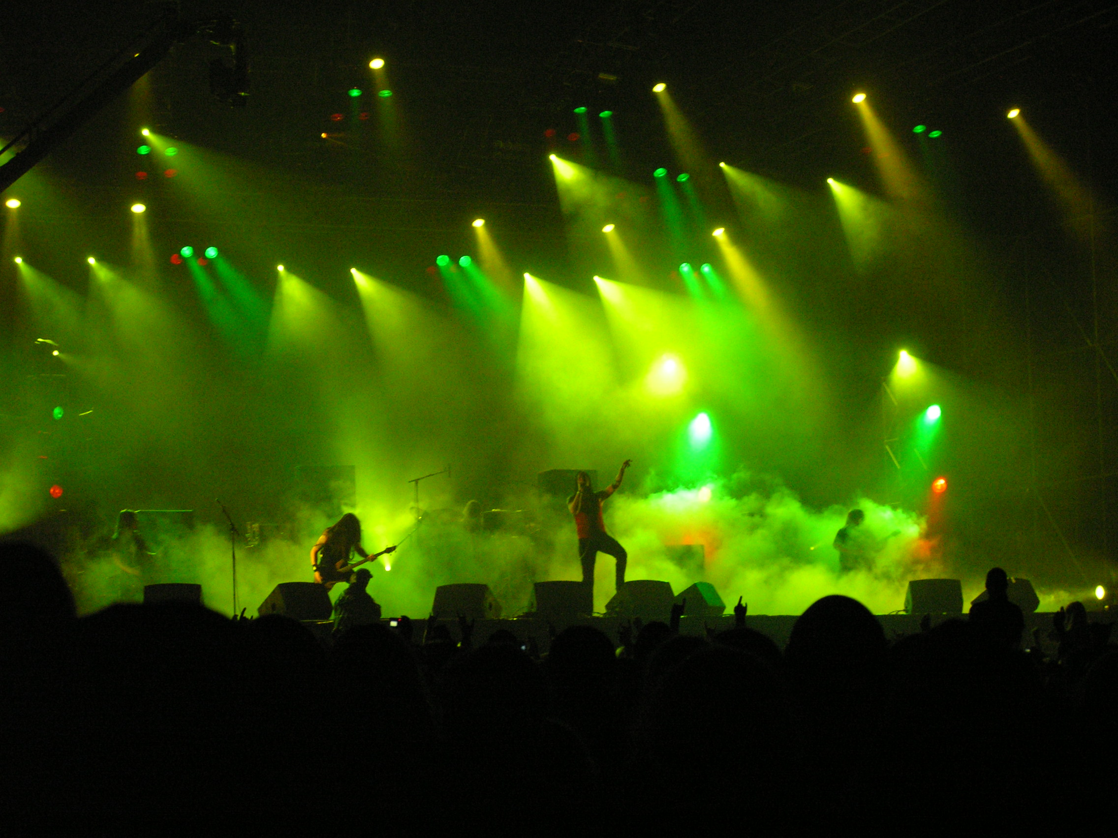 Sentenced in concerto